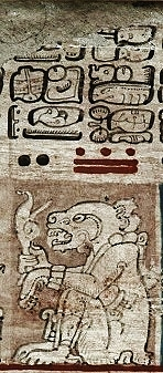 A dog depicted in the Mayan Dresden Codex